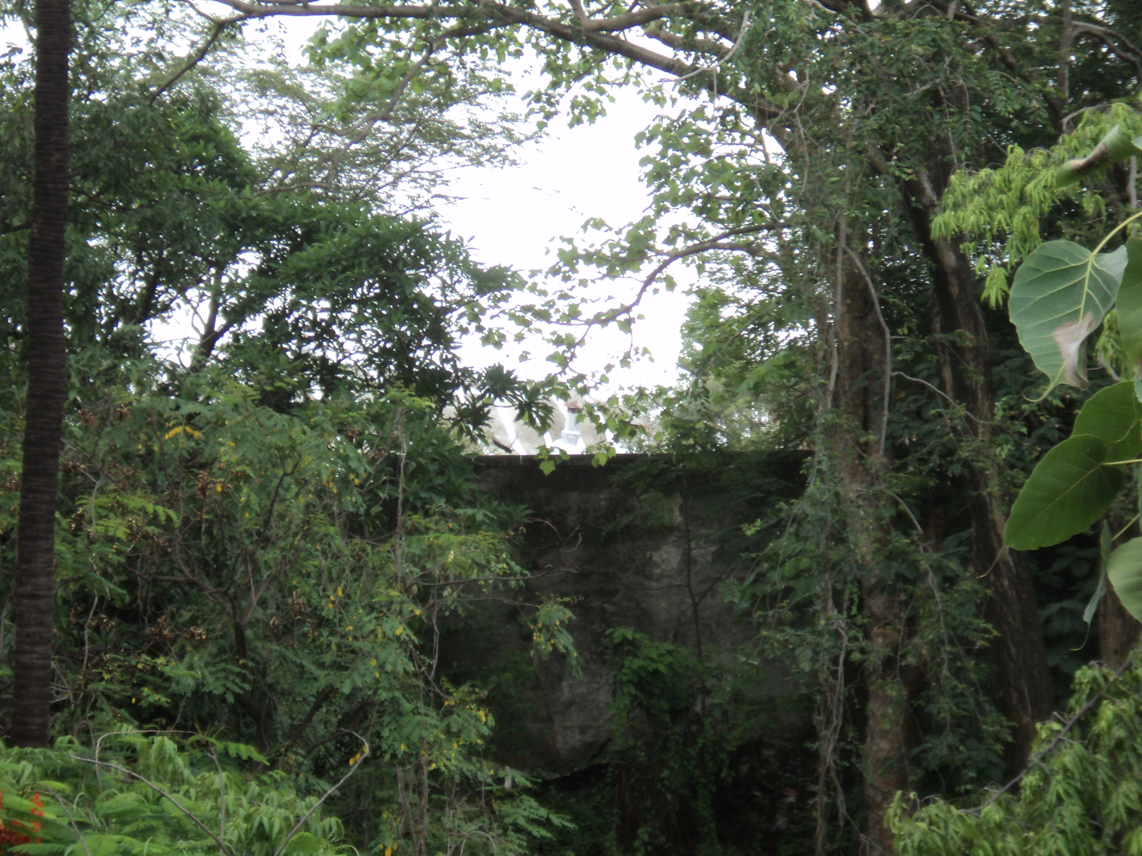 Distant view of Tower of Silence, Mumbai